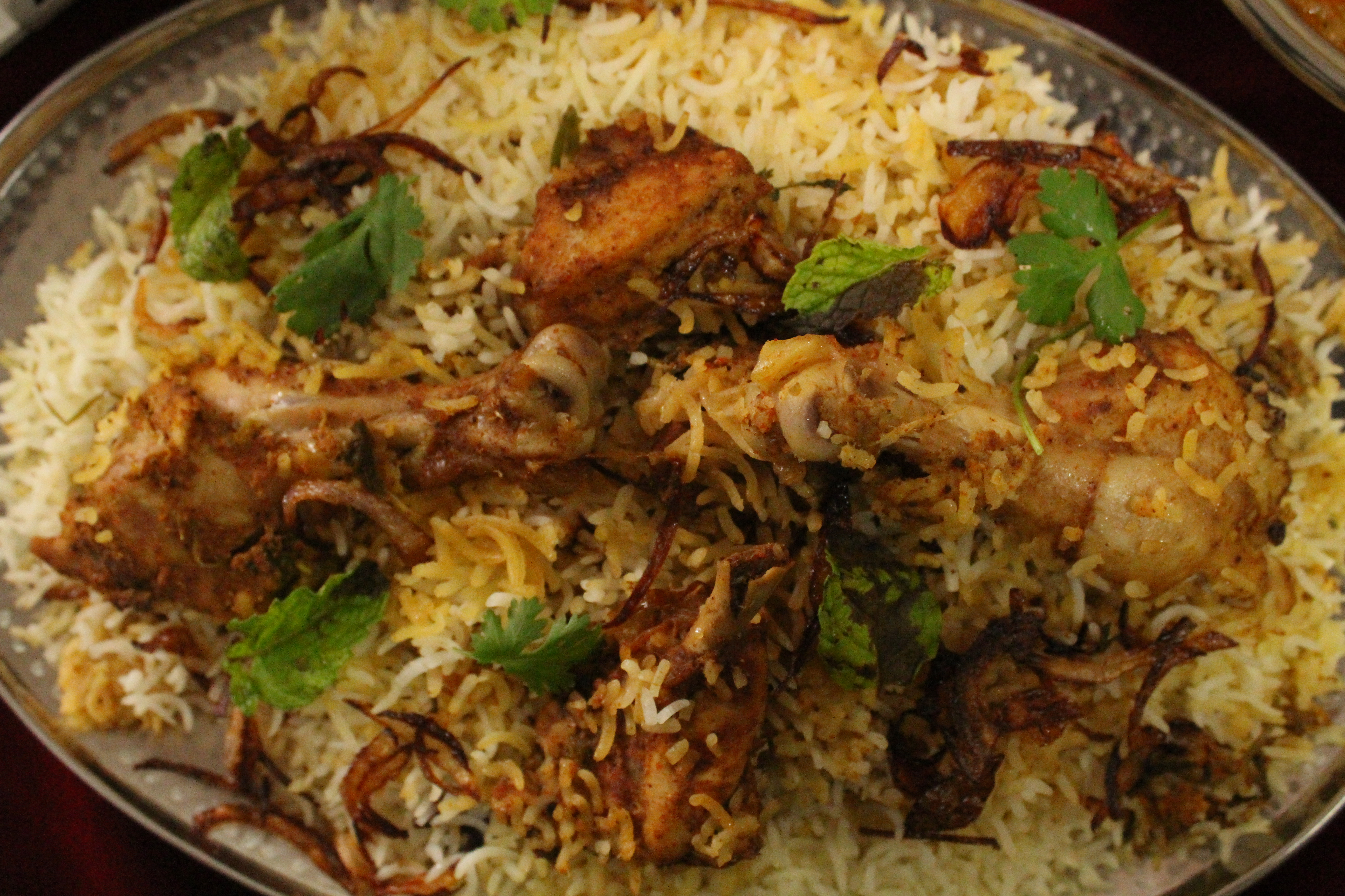 The deliciously complex blend of flavours, spices, and aromas in biryani. Biryani is an evergreen classic that really needs no introduction. India offers so much on its culinary platter but the one dish Indians unanimously love indulging in is the mouth-watering biryani. With local and hyperlocal variations having evolved into distinctive styles of biryanis, it comes to experiencing this melting pot of flavors. So if you are a die-hard fan of this delicious dish, take things up a notch and tease your taste buds a little more with the story of what makes biryani so extraordinary. Though it may appear to be a dish indigenous to India, in reality the dish originated quite far away. Biryani is derived from the Persian word Birian, which means ‘fried before cooking’ and Birinj, the Persian word for rice. While there are multiple theories about how biryani made its way to India, it is generally accepted that it originated in West Asia. Biryani is considered to be a dish of Indian origin, more prominently considered to be dish of Nizam (Ruler of the state of Deccan). ... Hyderabadi biryani originated as a blend of Mughlai and Iranian cuisine in the kitchens of the Nizam, rulers of the historic Hyderabad State.